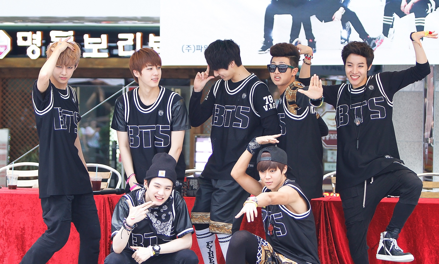 Bangtan Boys at an fansign in Busan on July 27, 2013.